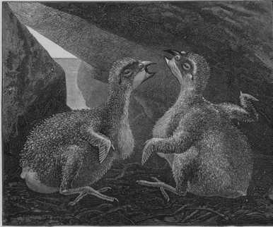 "Caption: Nestlings of Nestor notabilis". Kea chicks.